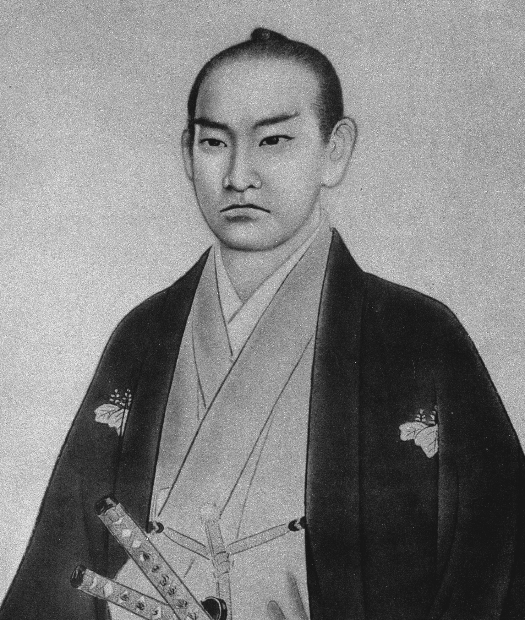 Portraits of Sanai Hashimoto